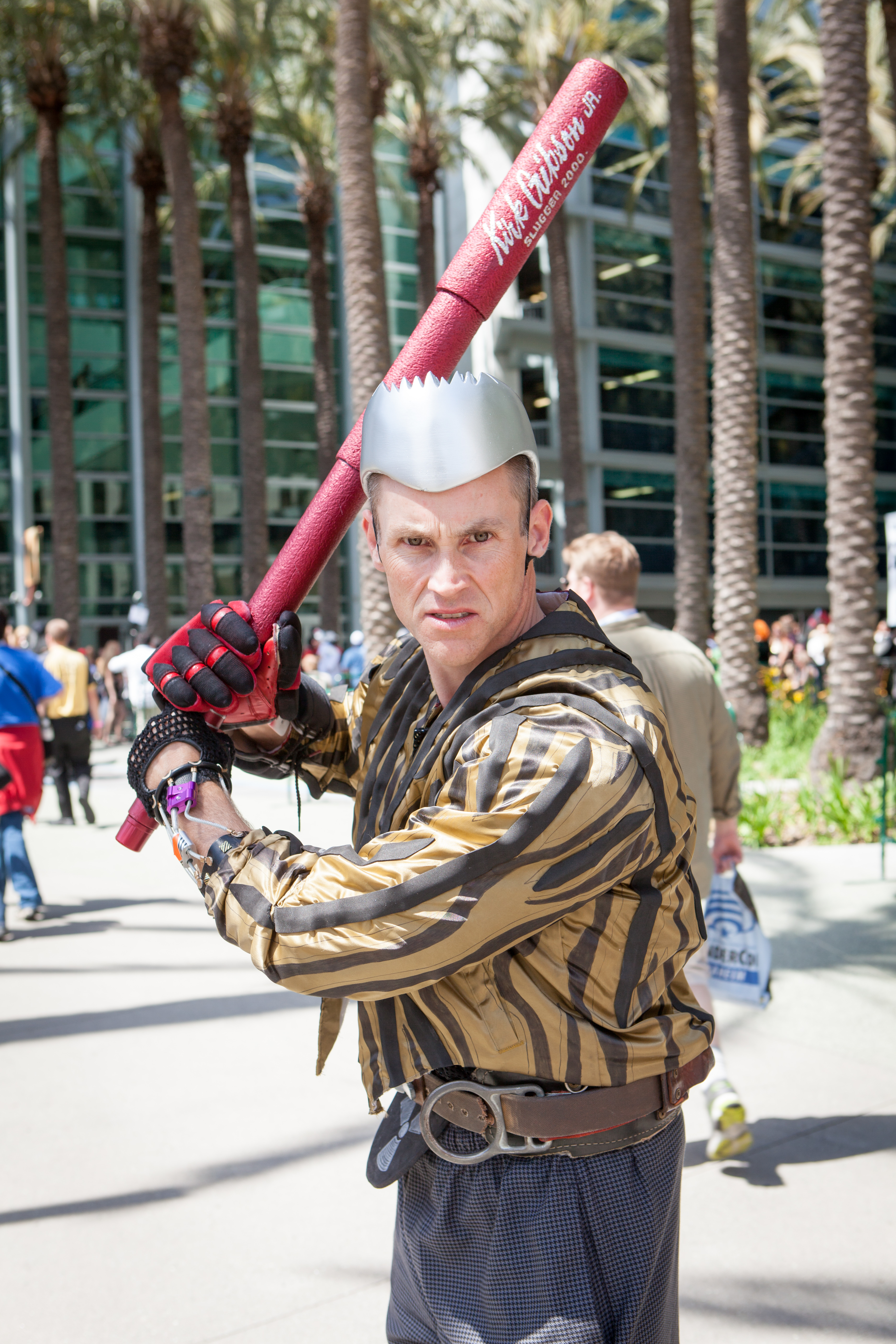 Wondercon 2015-7613